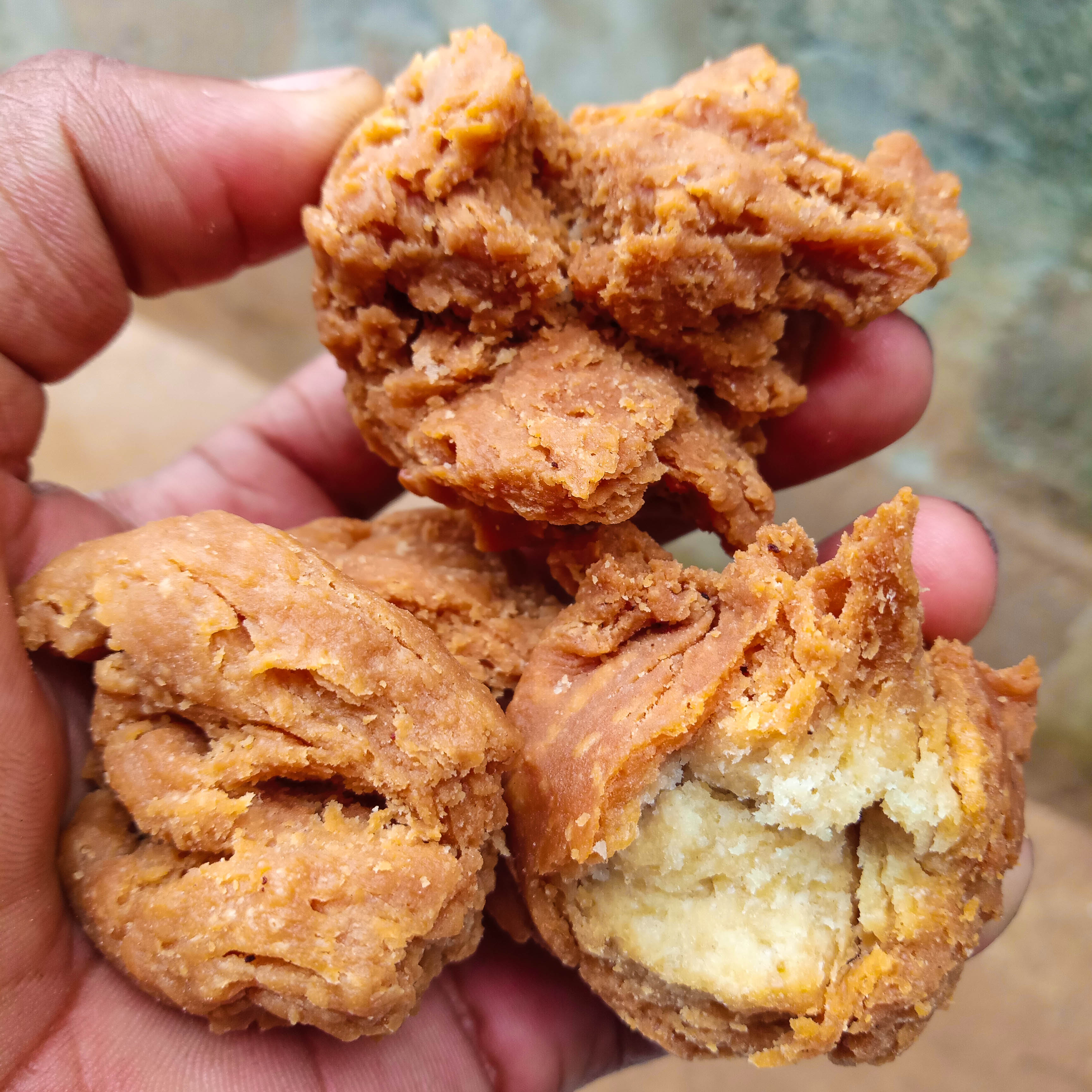 Amuse gueule "Atchonmon" de godomey